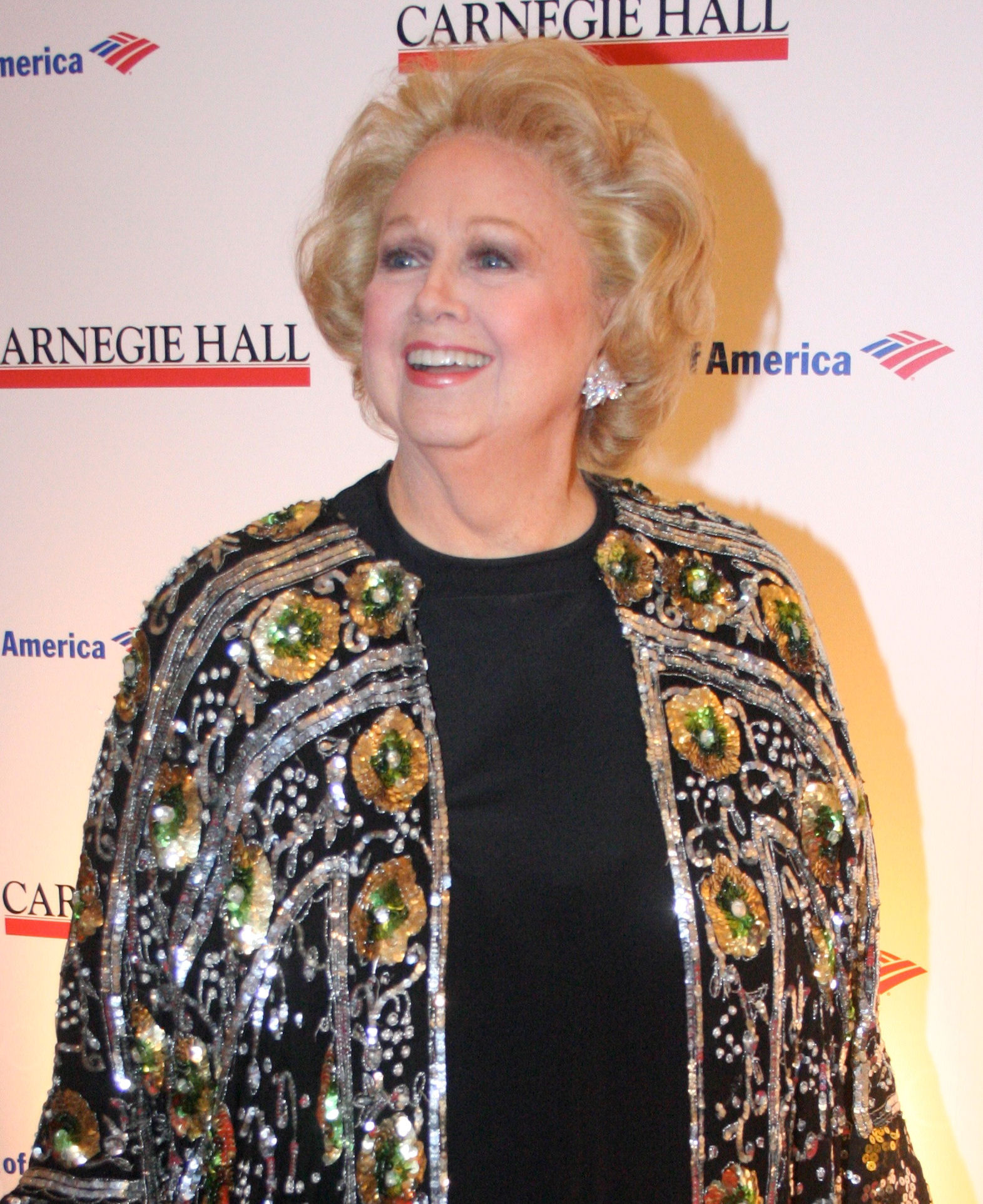 Barbara Cook at the 120th Anniversary of Carnegie Hall in MOMA, New York City in April 2011.